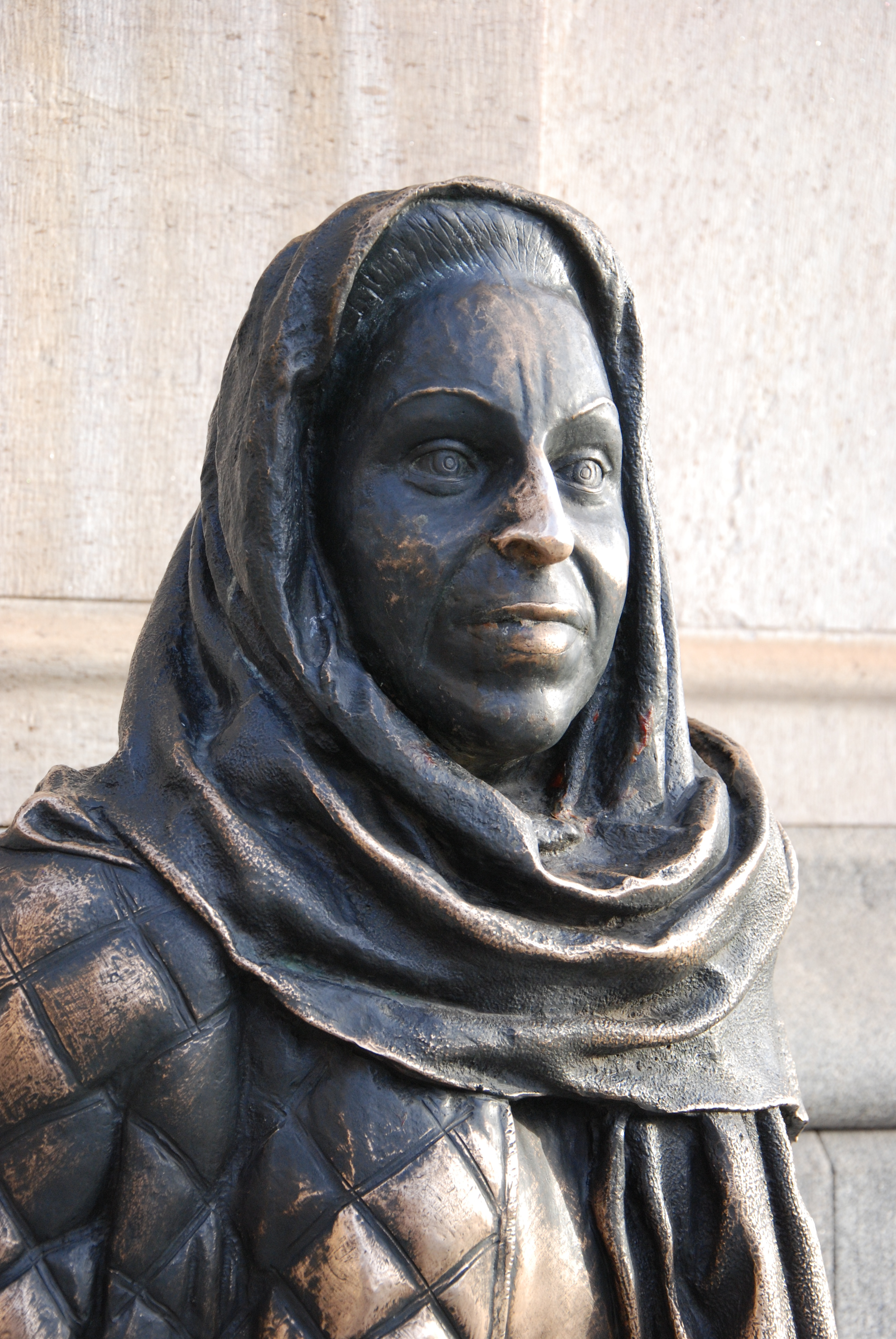 Statue of Margaretha Krook outside Dramaten Theatre i Stockholm, detaill. The head is s sculptured by Hanna Beling